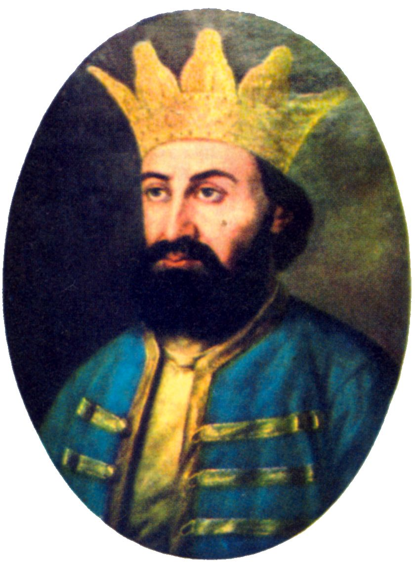 Bogdan I of Moldavia